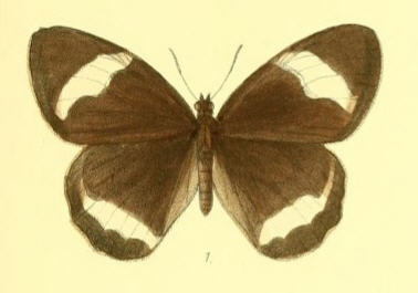 Zipaetis saitis